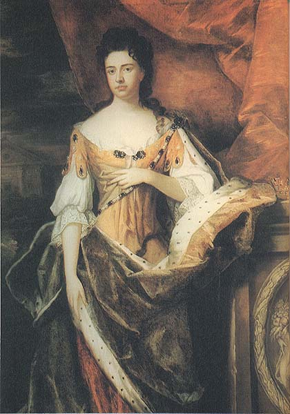 Princess Anne